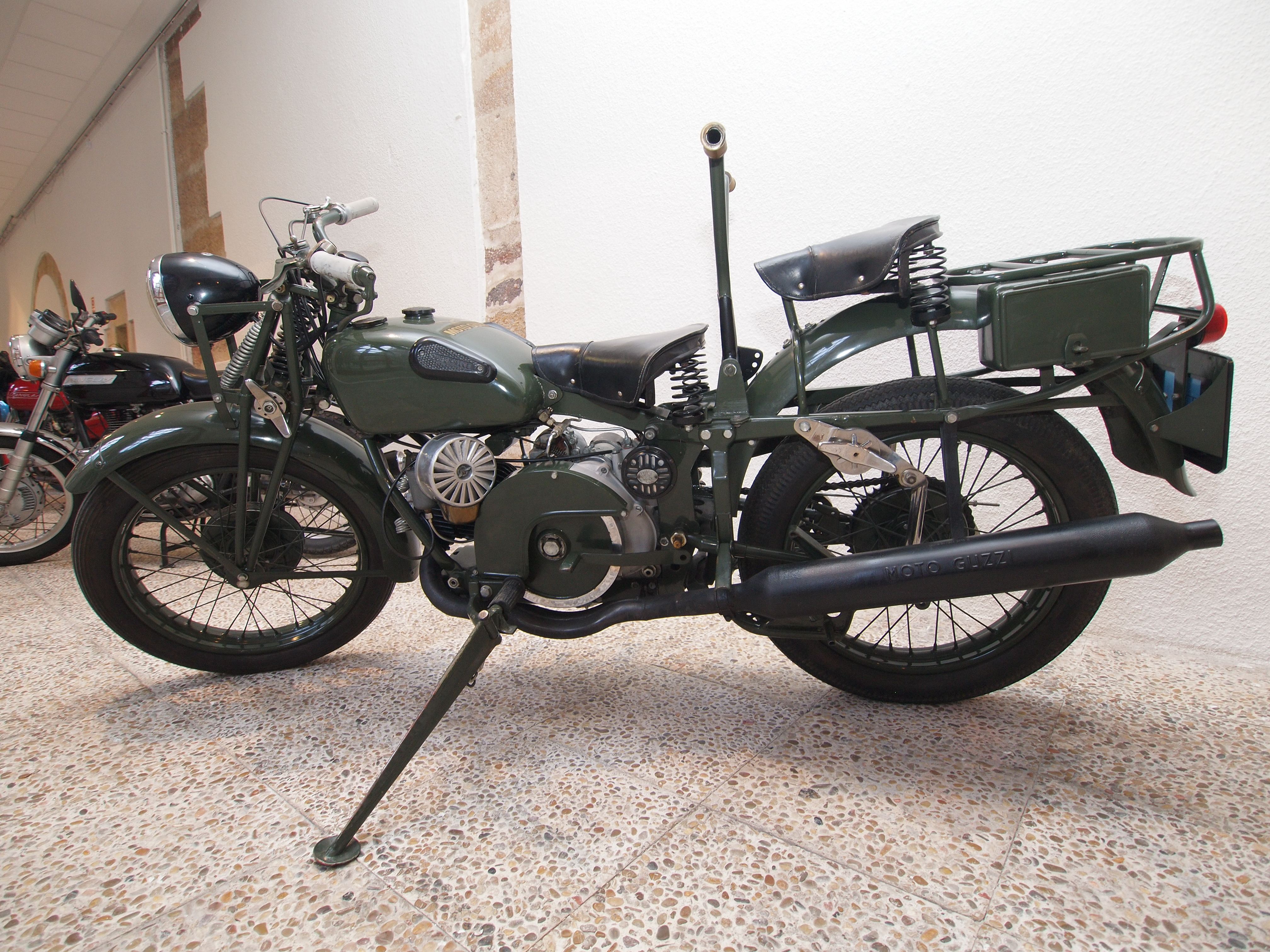 Guzzi Super Alce 500cc motorcycle, intended for military use, in the II Show "Toda una Vida en Moto" of the Asociacion Motociclista Zamorana (Zamora, Spain 2012) (year 1938 taken from the info at the Show, probably better 1939 or later)